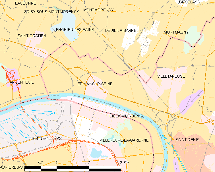 Map of French municipality Épinay-sur-Seine